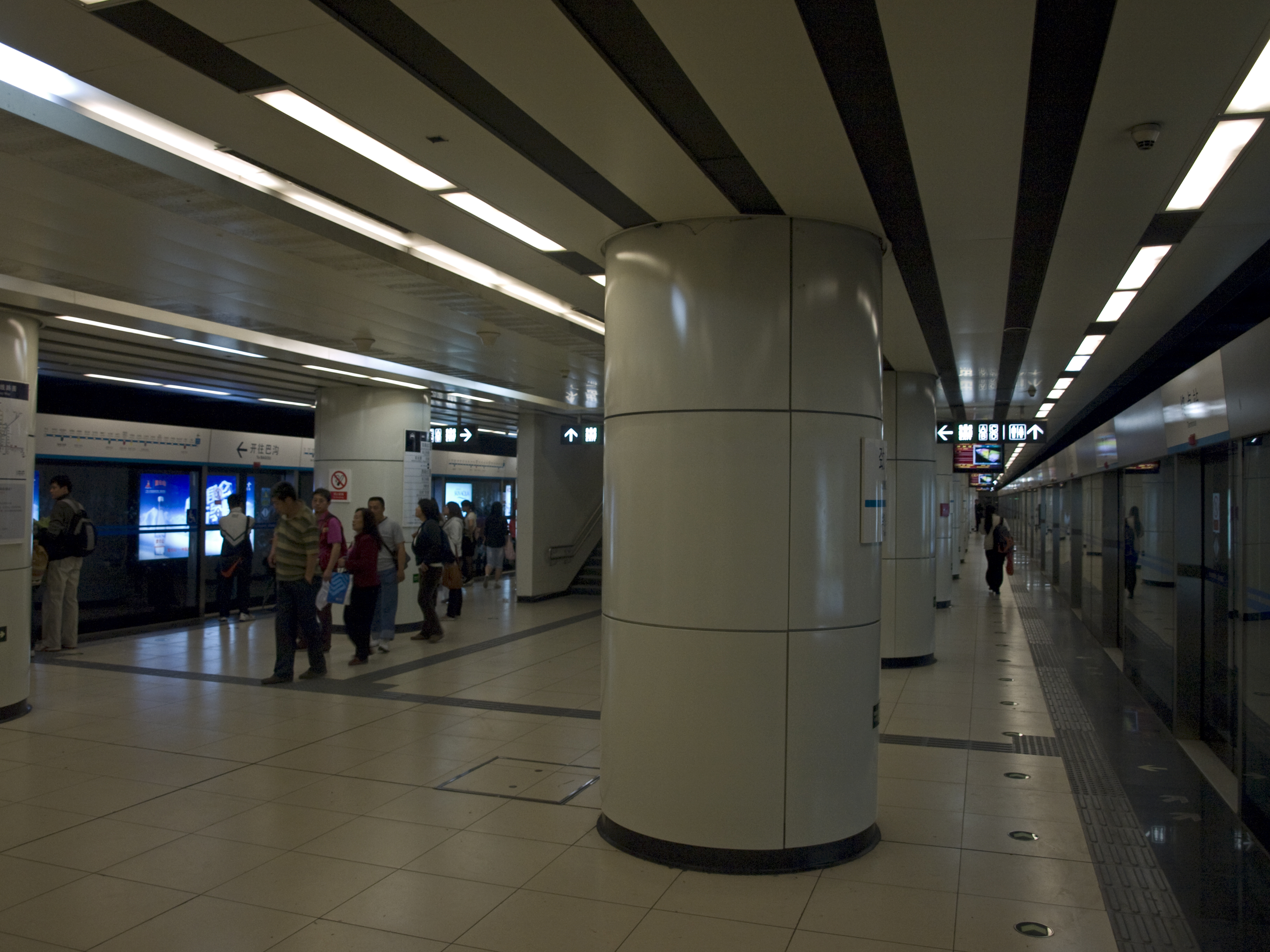 Jinsong station, Beijing Subway